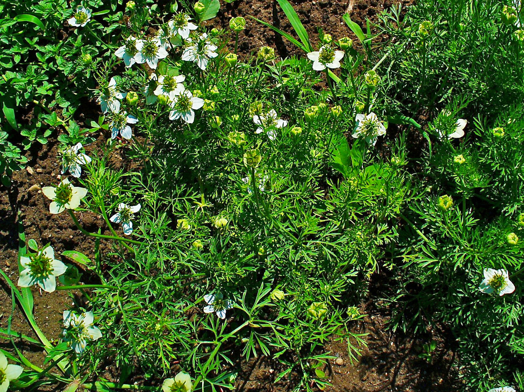 Nigella sativa, Ranunculaceae, Small Fennel, Black Cumin, habitus.